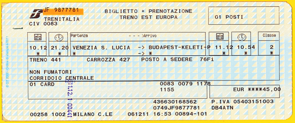 Railway ticket and seat reservation Venezia - Budapest for EuroNight 441 "Venezia", issued at Milano Centrale.